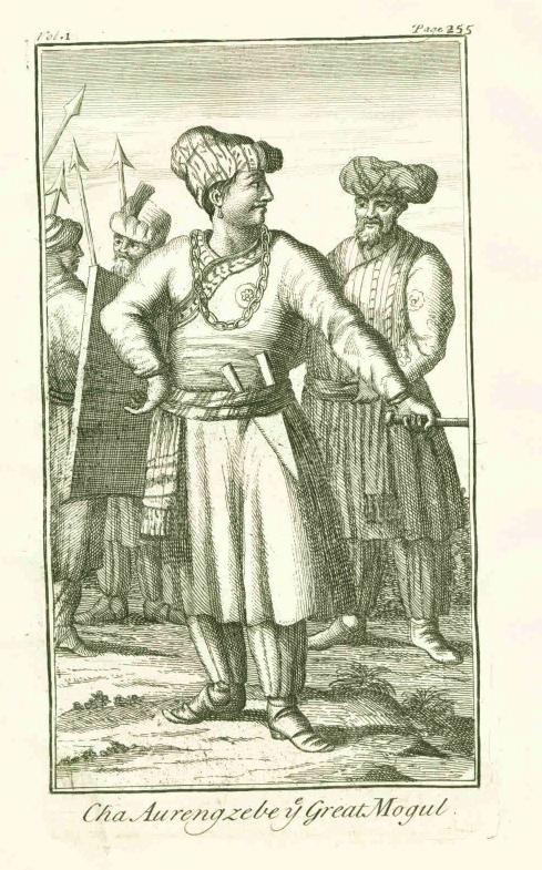 Copper engraving with the title Cha Aurengzebe Ye Great Mogul; "Vol. 1" and "Page 255" also within plate.